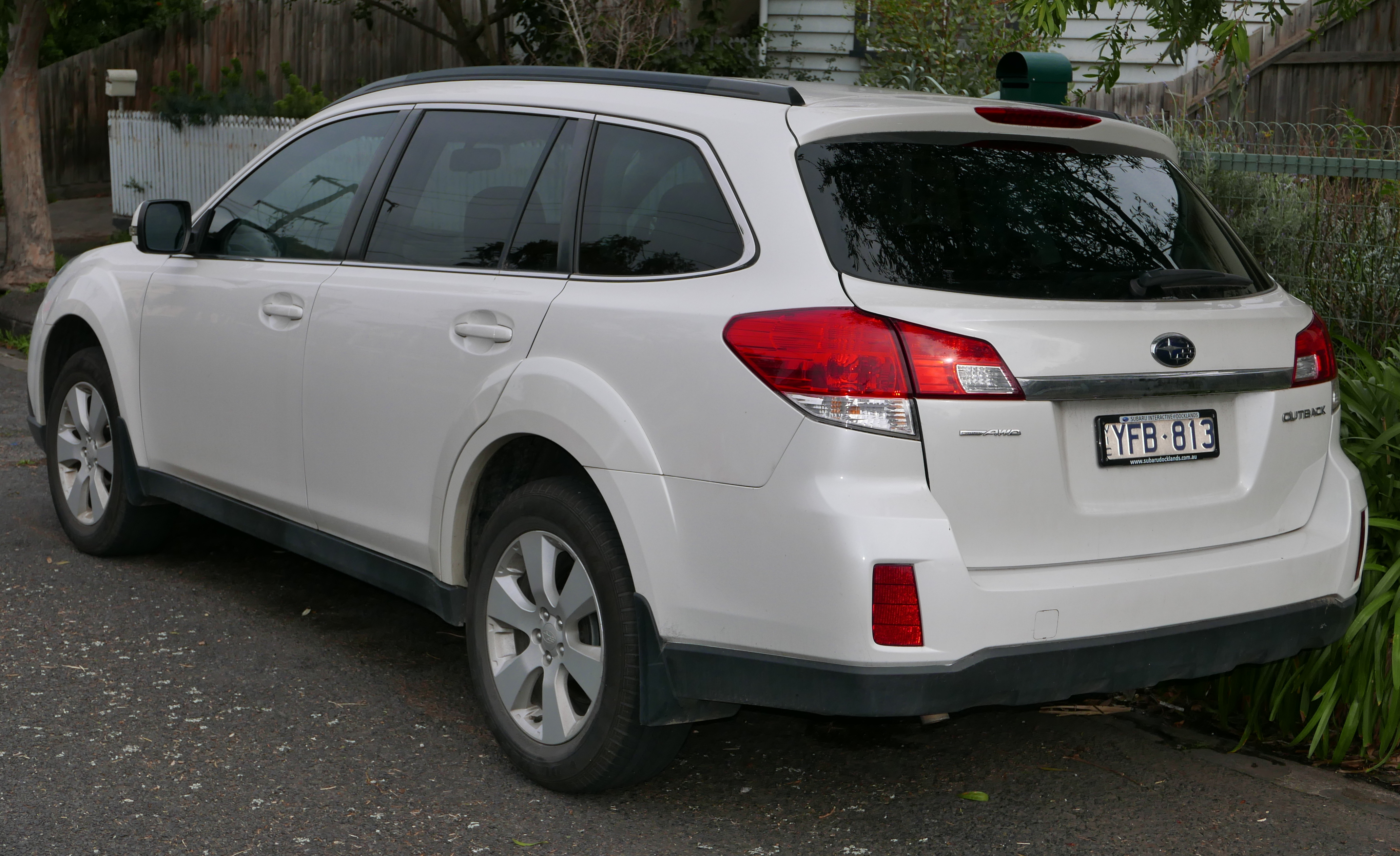 2011 Subaru Outback (BR9 MY11) 2.5i station wagon. This has been listed as the 2.5i due to the lack of sunroof and headlight washers [1]. Photographed in Brunswick, Victoria, Australia. Vehicle registration enquiry resultsJurisdictionVictoriaRegistrationYFB813Chassis codeJF2BR9K95BG022412Engine codeE351117Compliance date2011-02Year of manufacture2011